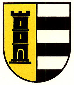 Coat of arms of Category:Oberhelfenschwil, canton of St. Gallen, Switzerland